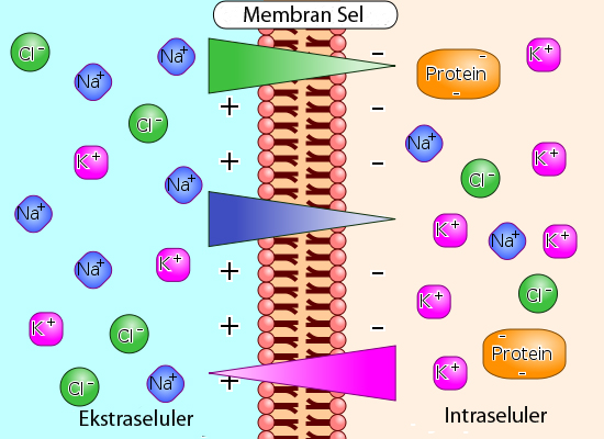 Illustration of the way that differences in ion concentration on opposite sides of a cell membrane produce a voltage difference